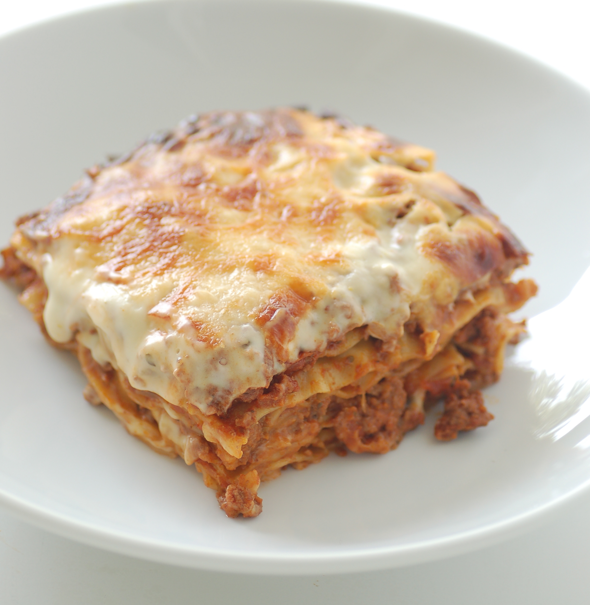 Lasagne served on a white plate